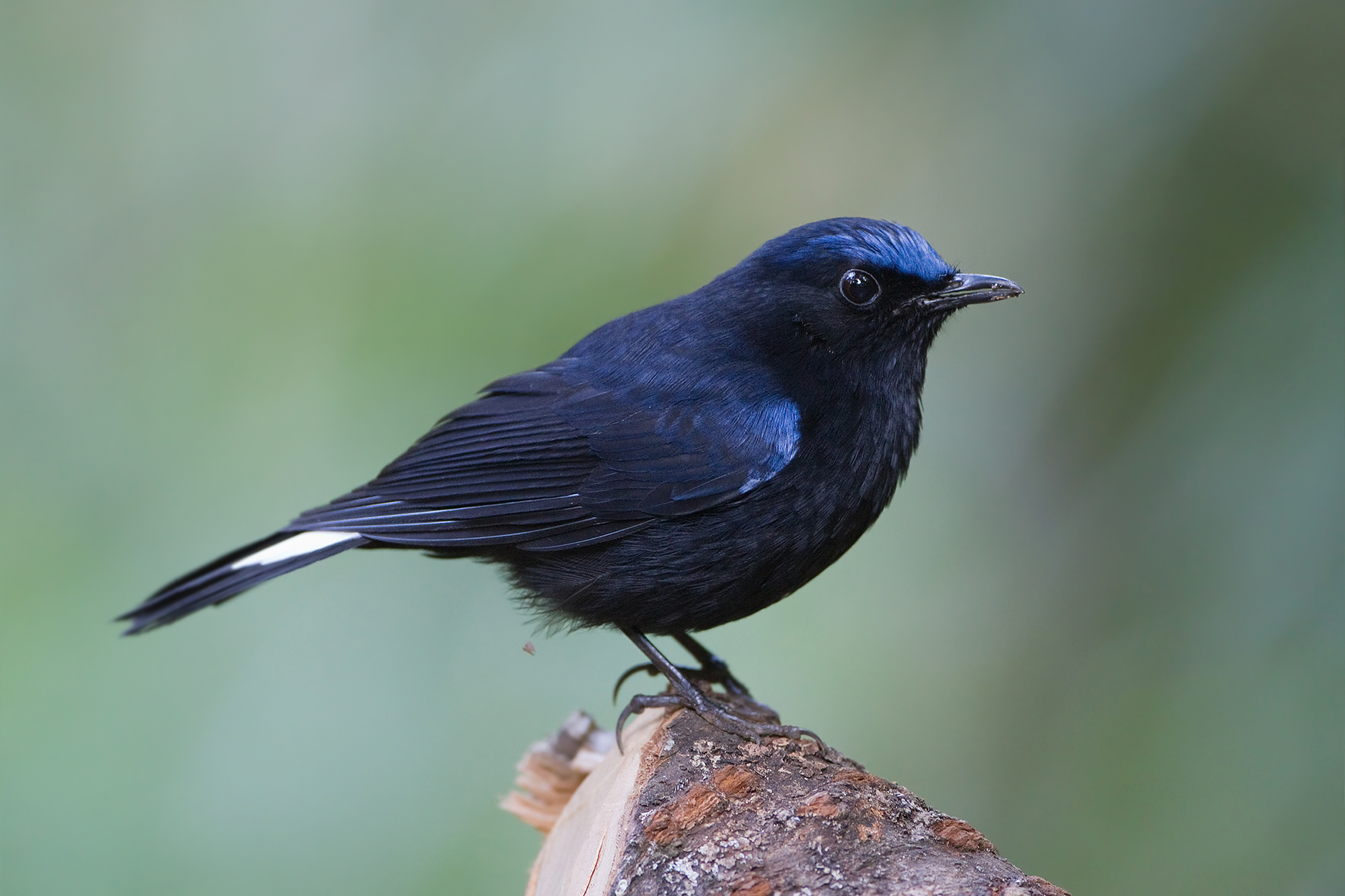 White-tailed Robin (Cinclidium leucurum) male, Royal Agricultural Station, Ang Khang, Mon Pin, Chiang Mai, Thailand